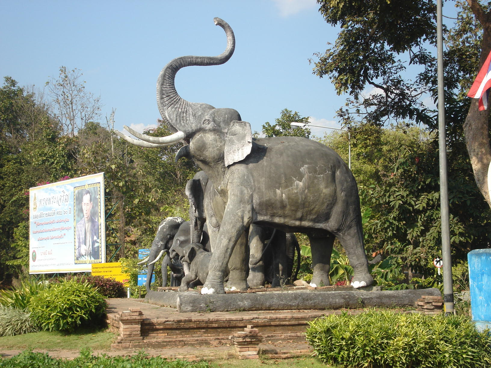 Thai elephants statue, Hang Chat, Lampang